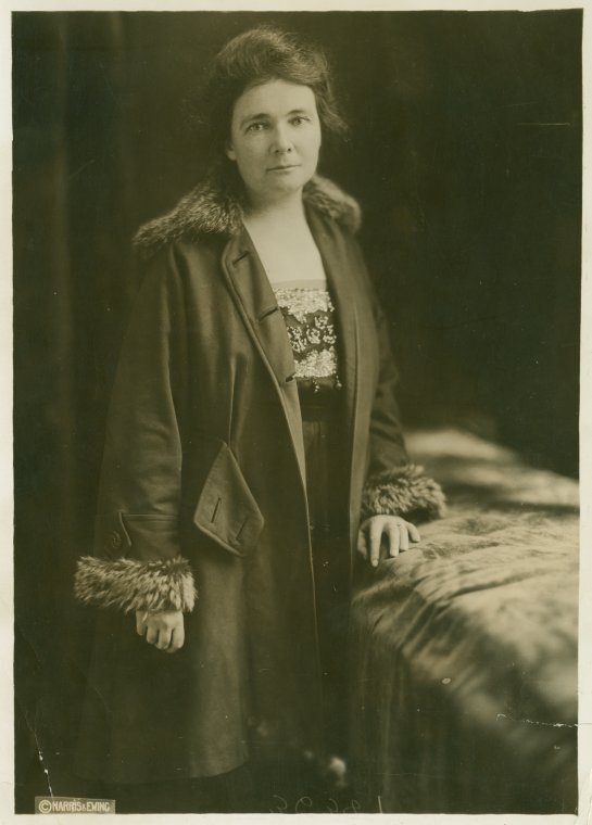 Anna Mebus Martin, American businesswoman and bank president